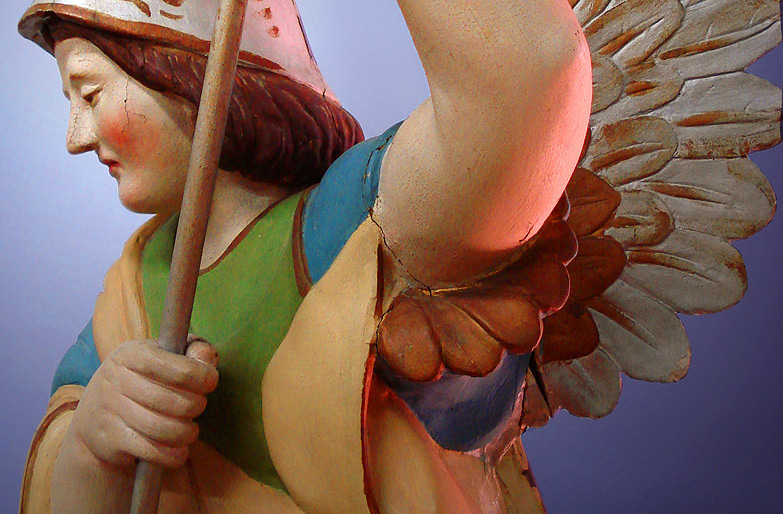 Pietro Stangherlin: St. Michael, Caxias do Sul City Museum, Brazil.